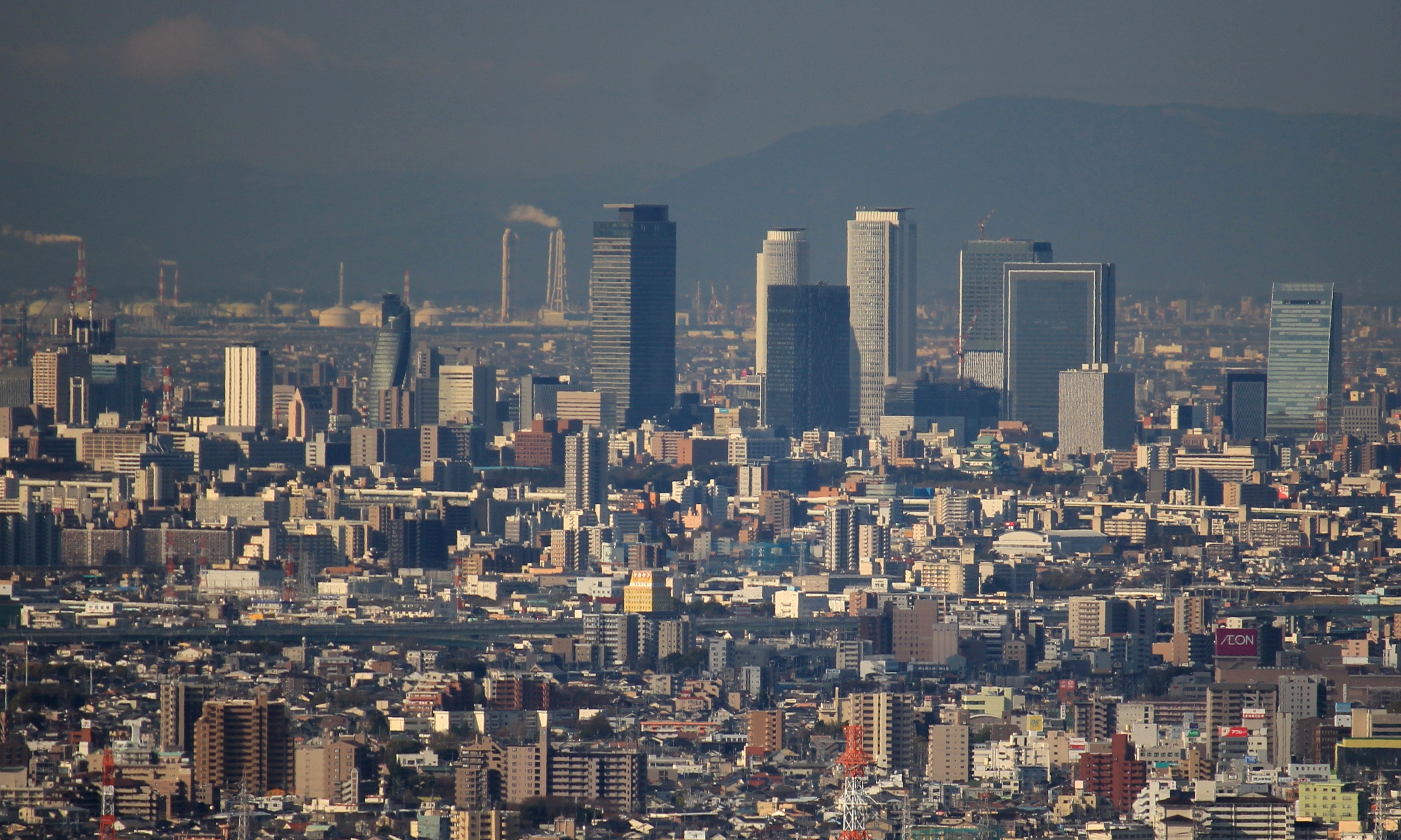 Meieki seen from Mount Miroku in Nagoya, Aichi prefecture, Japan.